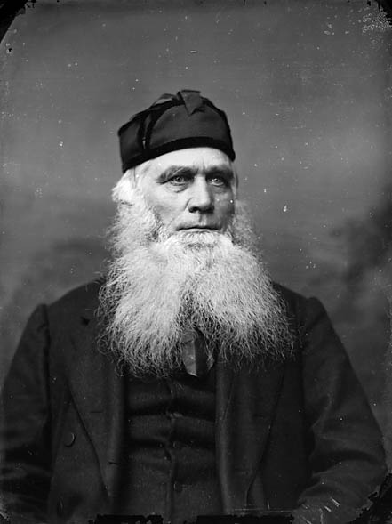 1 negative : glass, wet collodion, b&w ; 21.5 x 16.5 cm.